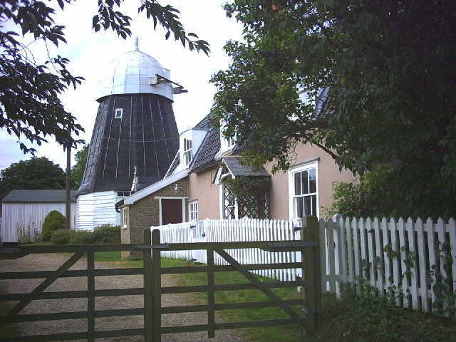 The smock mill at Drinkstone, Suffolk